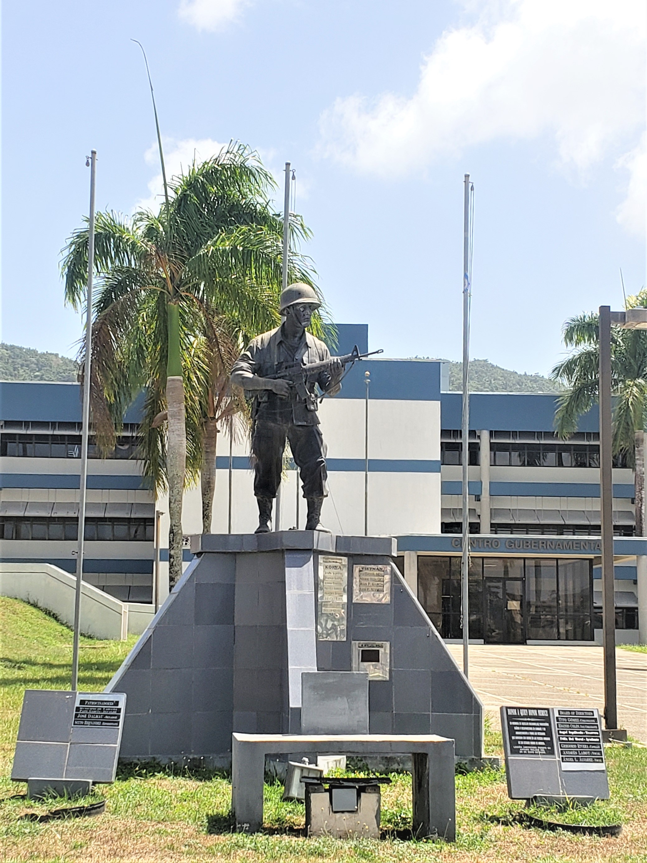 Estatua del soldado puertorriqueño enfrente del Centro Gubernamental en Yabucoa, Puerto Rico